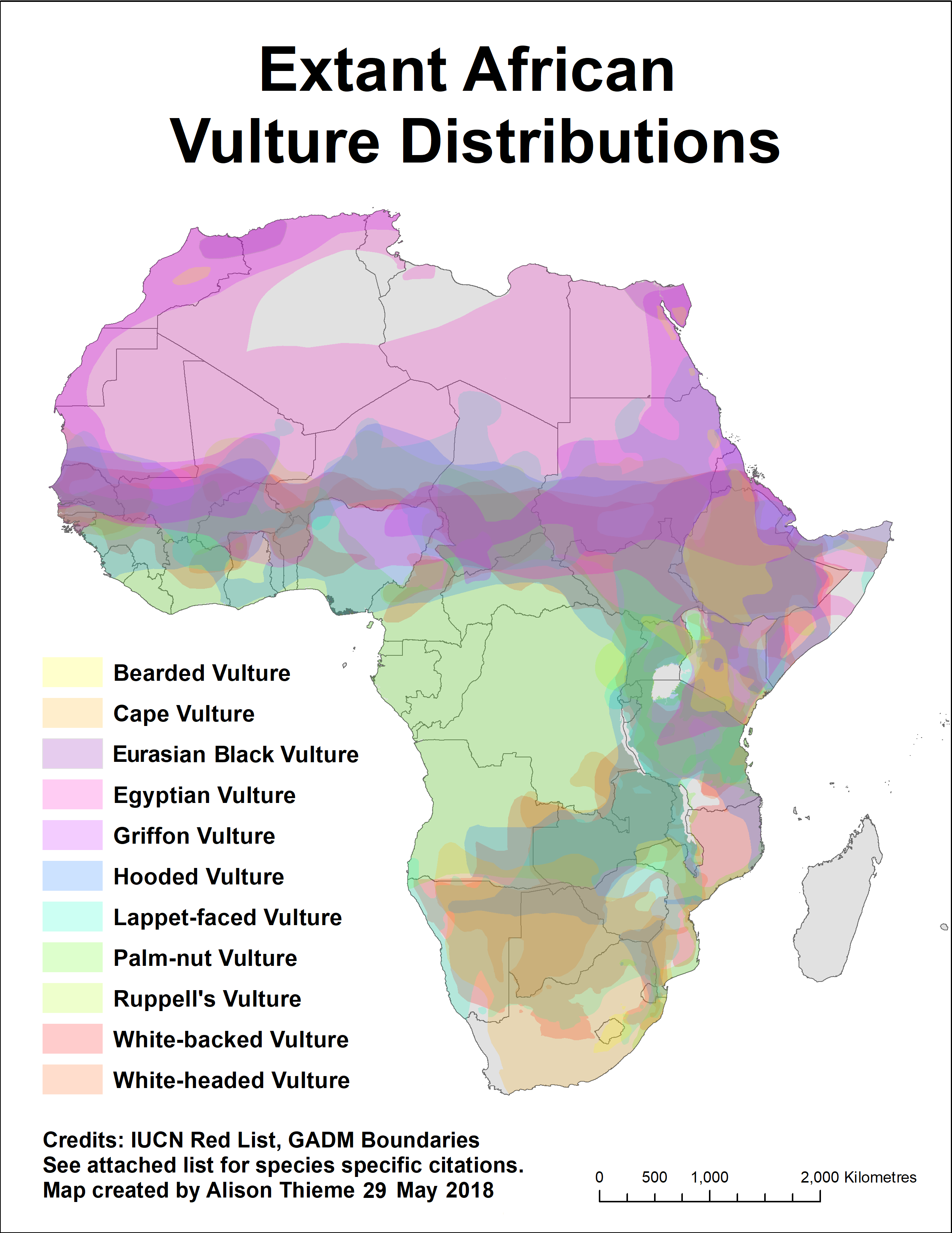 Map showing the species distributions of vultures in Africa. Created using IUCN Red List and GADM administrative boundaries data.